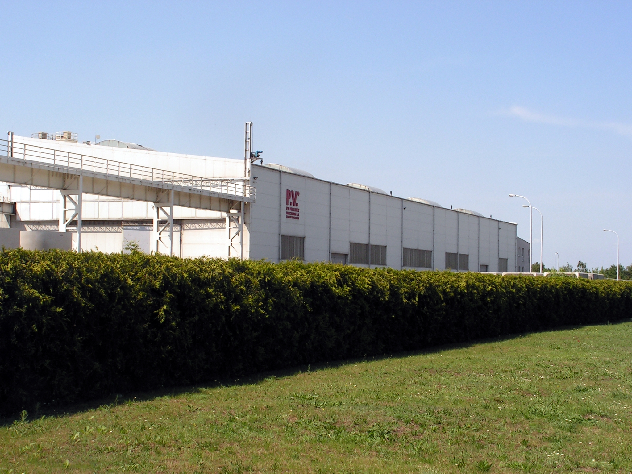 Factory of PV Prefabet Kluczborg Company at Wiklinowa Street in Włocławek.